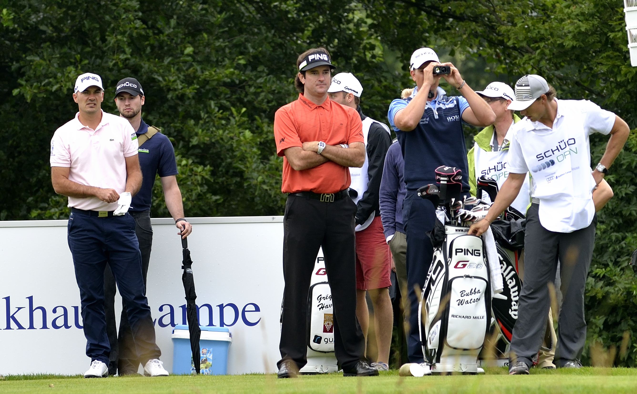 Bubba Watson at the Schüco Open, Golfclub Gut Kaden, Germany